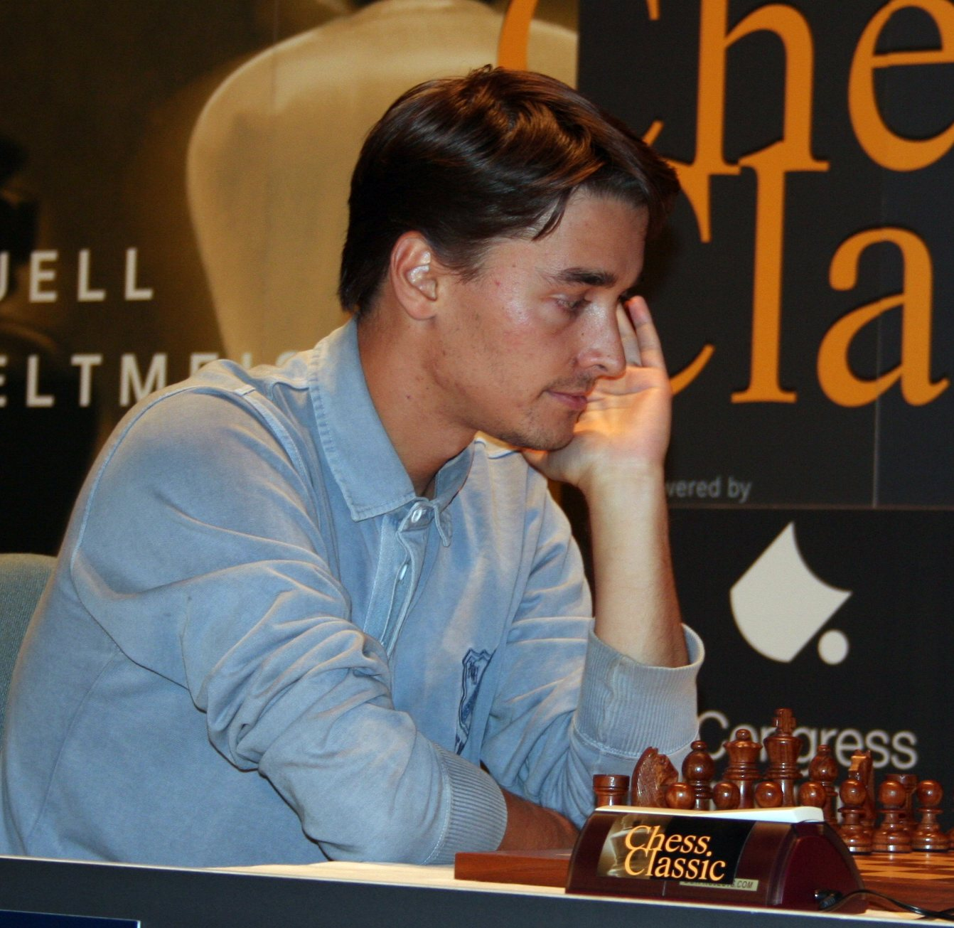 Alexander Morozevich – Russian grandmaster. August 2005.